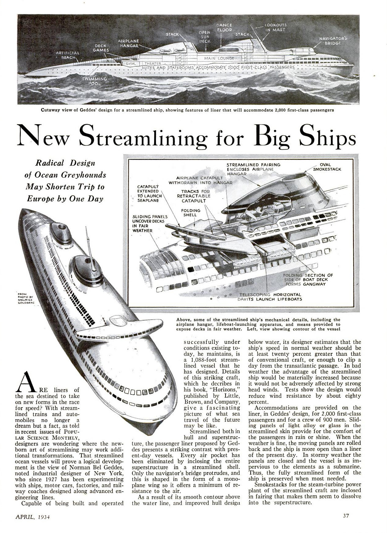 Popular Science April 1934, p. 37